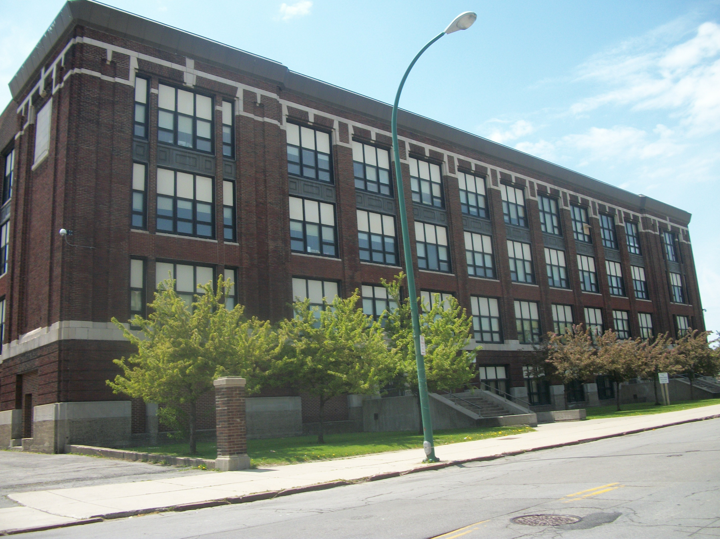 The former site of Buffalo Academy for Visual & Performing Arts/Hutchinson Central Technical High School 333 Clinton Street Buffalo, NY 14204